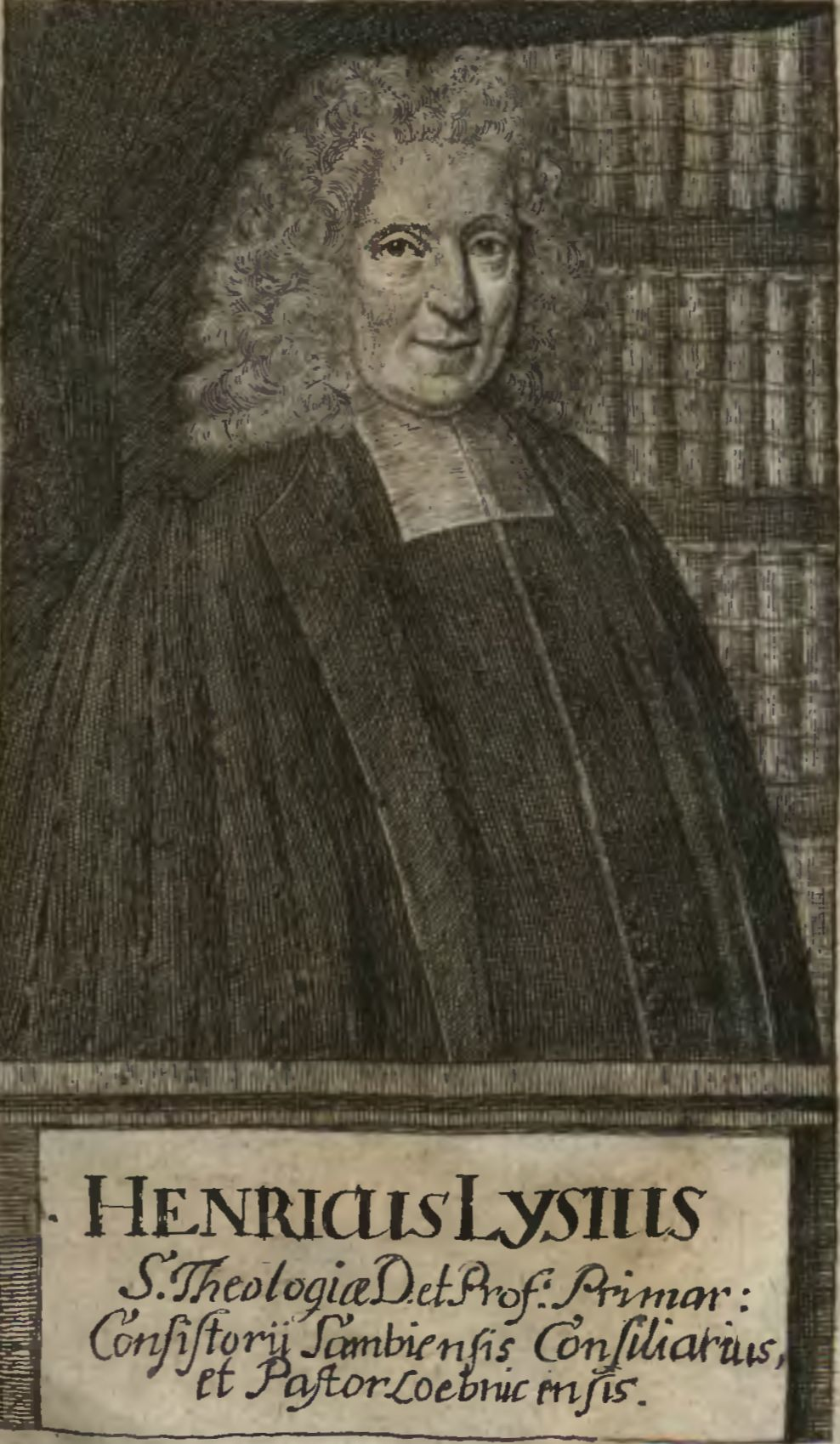 Heinrich Lysius (1670-1731), German theologian